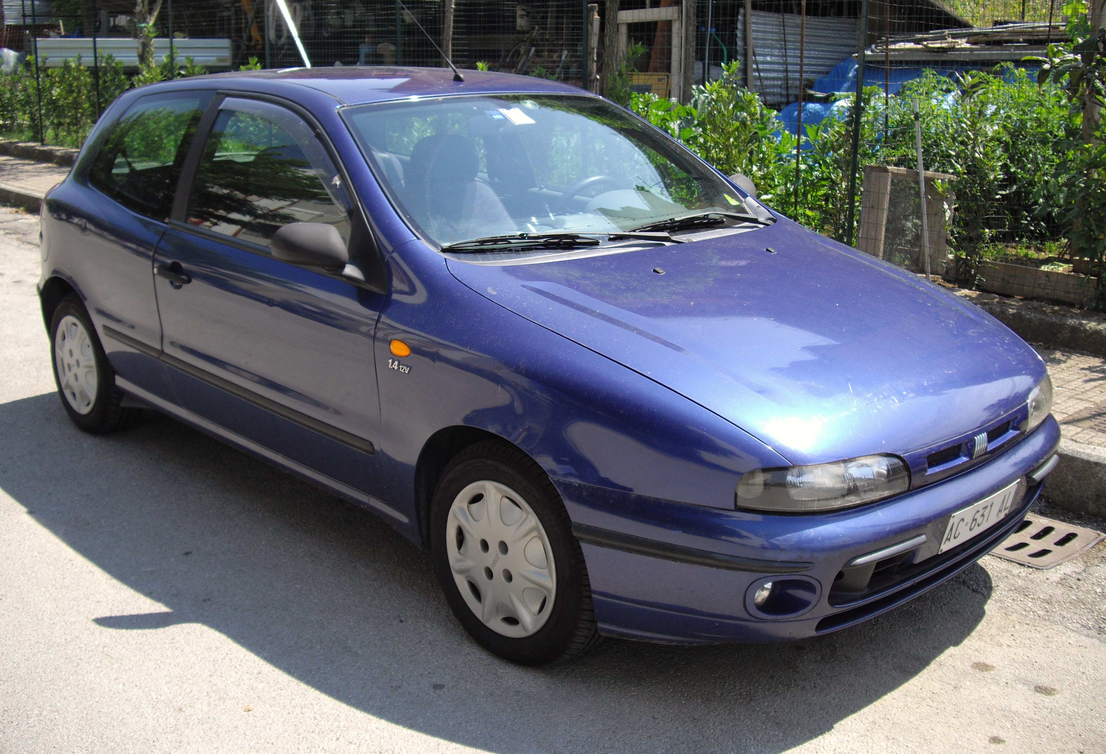 Fiat Bravo